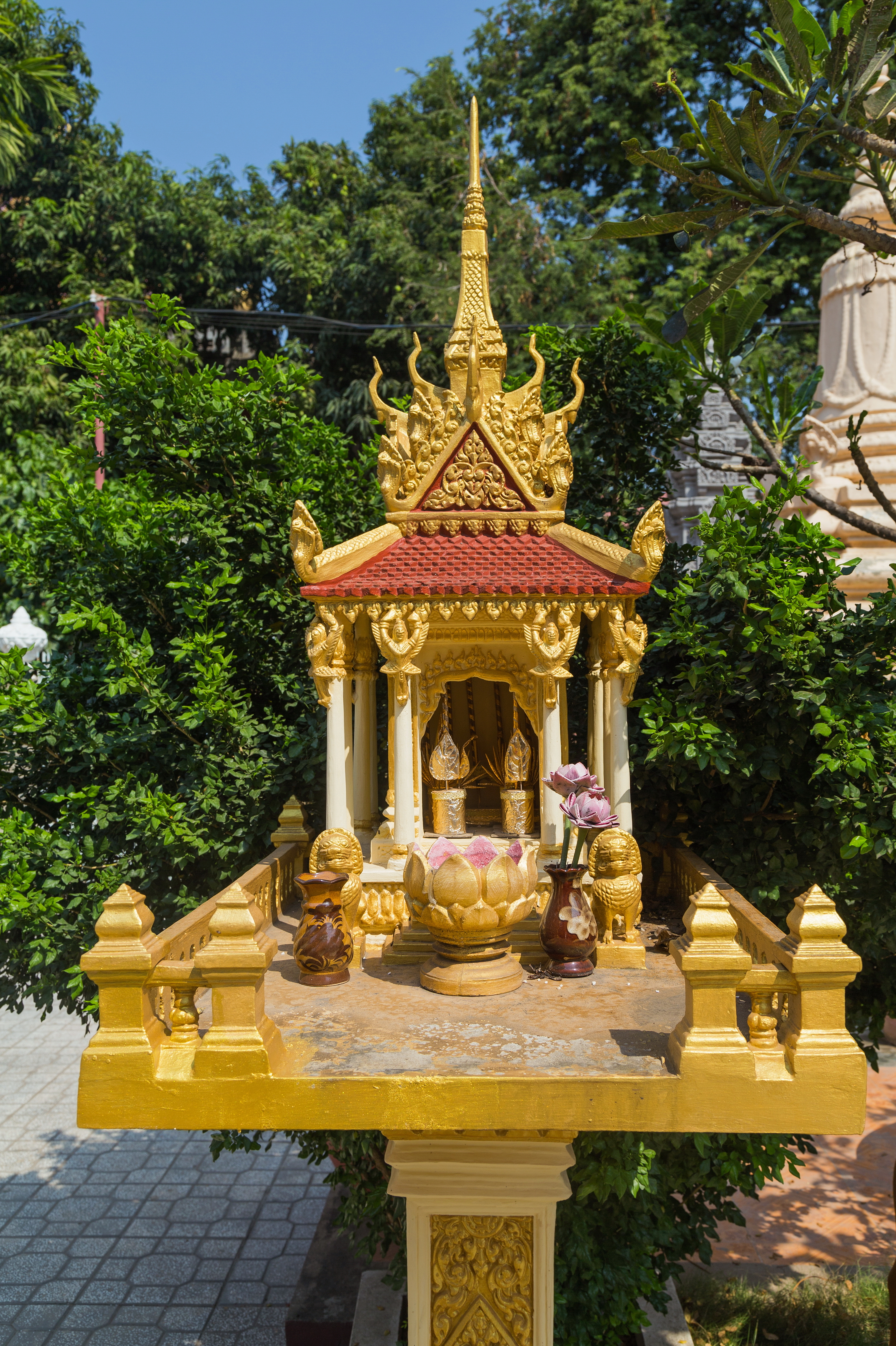 Buddhist small shrine. Wat Langka. Phnom Penh, Cambodia.